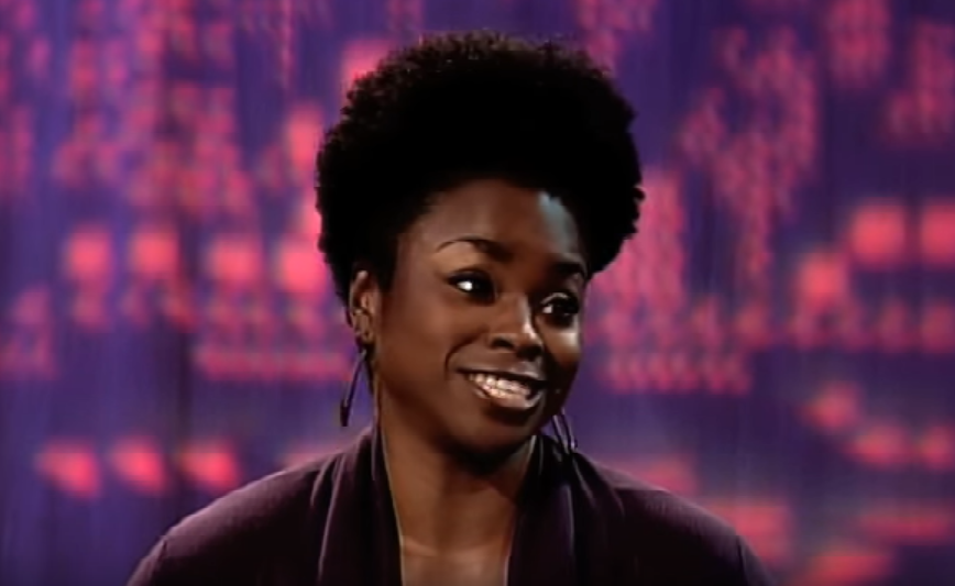 American actor Stacey Sargeant on an interview with Inside New York City Dance in 2012.